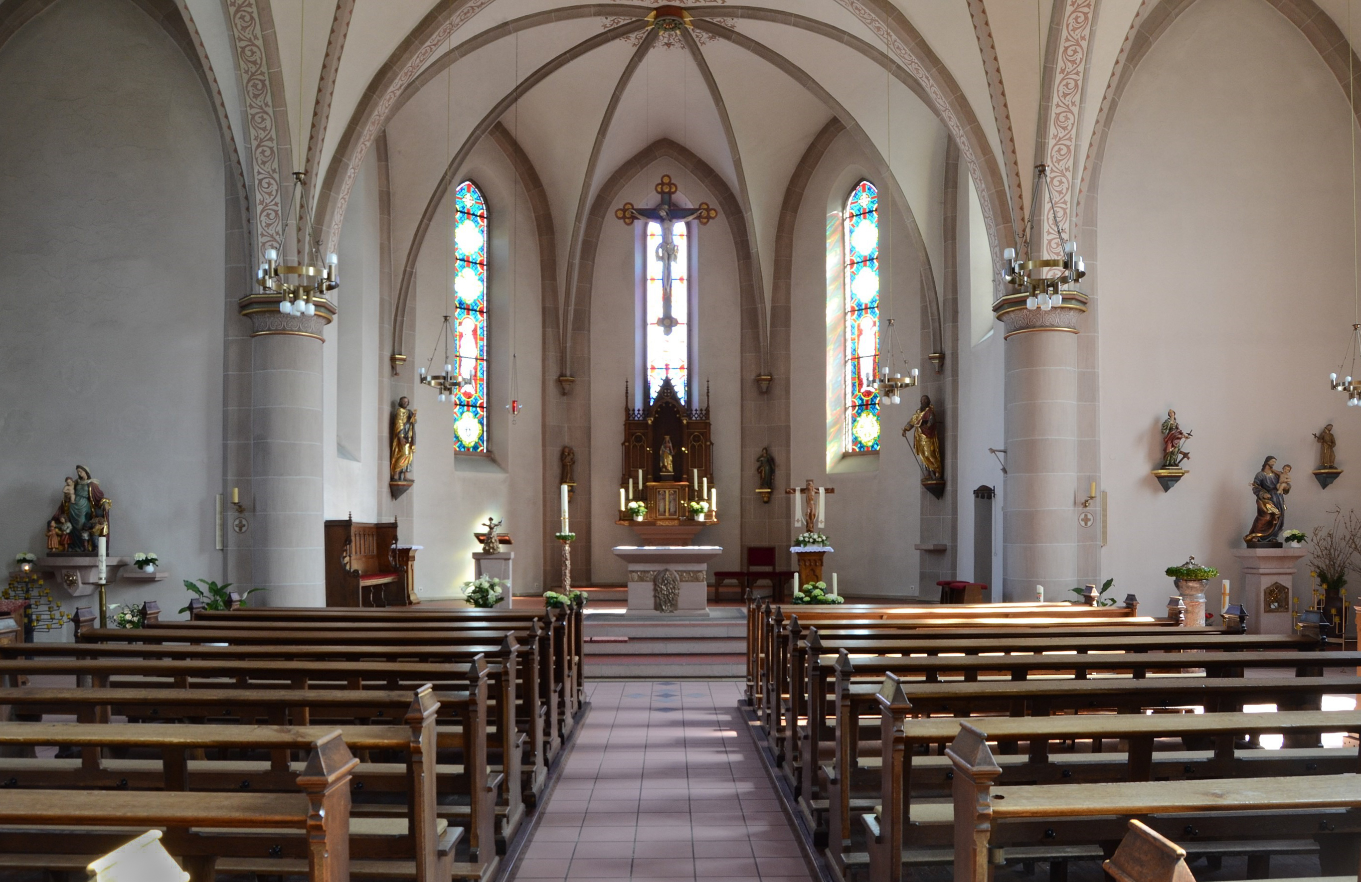 Olsberg (North Rhine-Westphalia, Germany) – district Assinghausen – Catholic Saint Catherine Church – interior This image shows a heritage building in Germany, located in the North Rhine-Westphalian city Olsberg (no. 34). This photograph was taken with a Nikon D7000